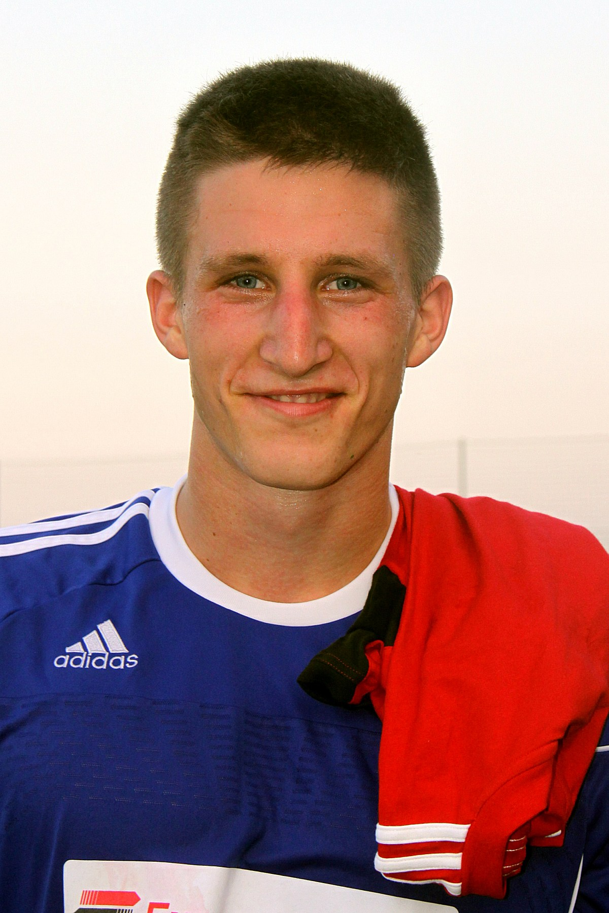 Friendly match SV Mattersburg vs FK Dukla Banská Bystrica (2:2) at 2013-06-21 in Mattersburg. – The photo shows Matej Podstavek (FK Dukla Banská Bystrica).